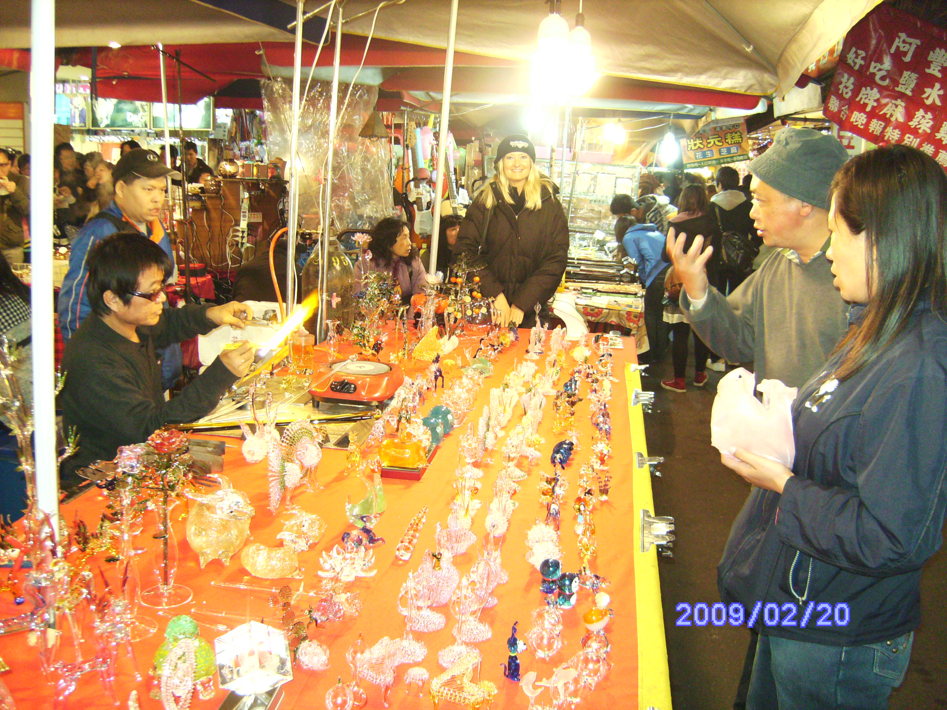 饒河街觀光夜市Raohe St. Night Market2009/3